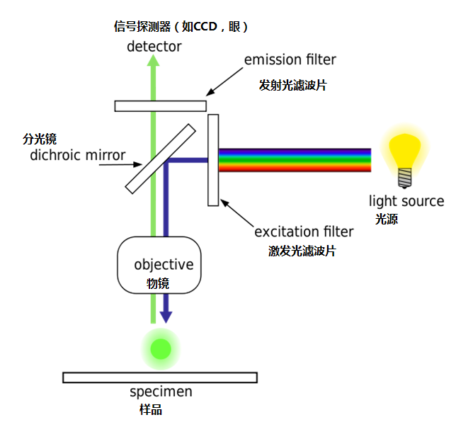 a brief illustration of Epi-fl illumination in Epi-fl microscopy